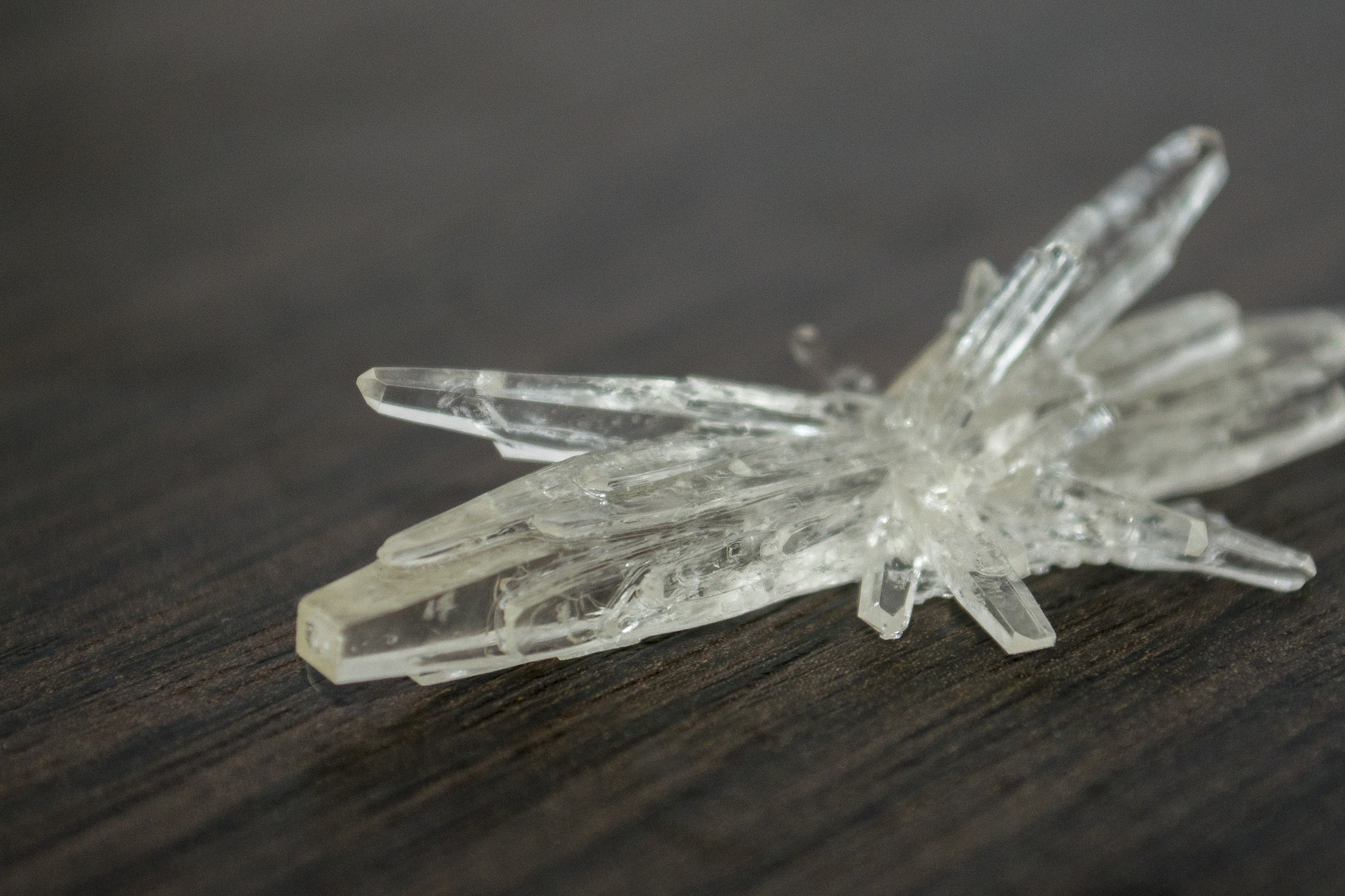 Crystal of Ammonium dihydrogen phosphate (ADP)